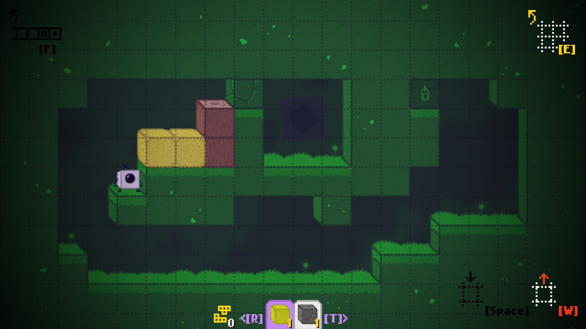 Tetromino making in Blocks That Matter, a video game.